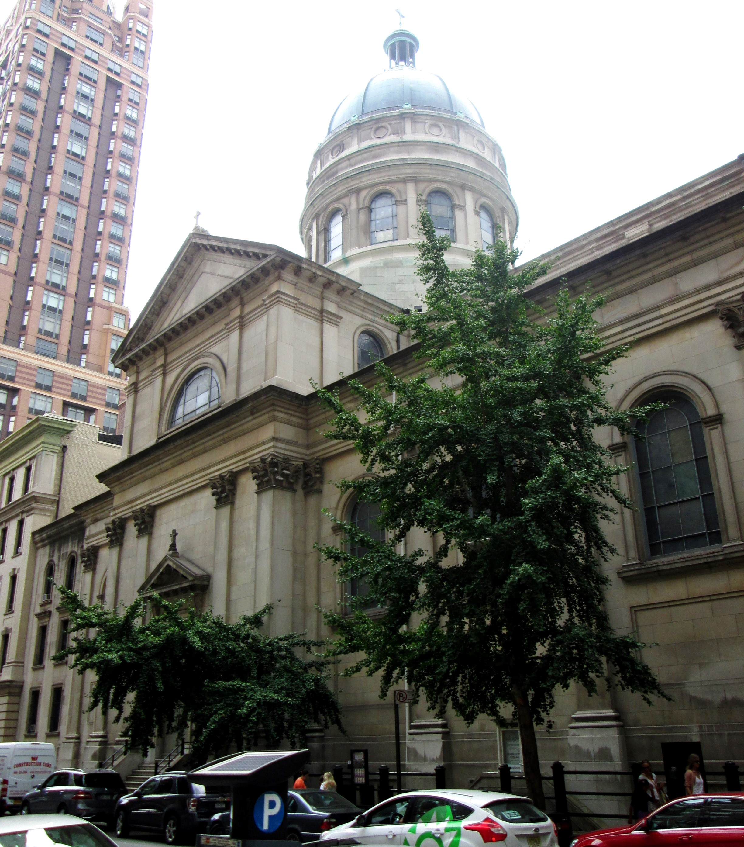 The Roman Catholic Church of St. Jean Baptiste, located at 1067-1071 Lexington Avenue (also known as 184 East 76th Street), in the Lenox Hill neighborhood of the Upper East Side, New York City, was built in 1910-13 and was designed by Nicholas Serracino, inspired by Italian Mannerism. It features a 175-foot dome. A renovation was undertaken by Hardy Holtzman Pfeifer from 1996-96 in which the somber interior was decorated in bright colors by Felix Chavez, and new stained class windows by Patrick Clark were installed. (Sources: Guide to NYC Landmarks (4th ed.), From Abyssinian to Zion (2004) and AIA Guide to NYC (5th ed.))